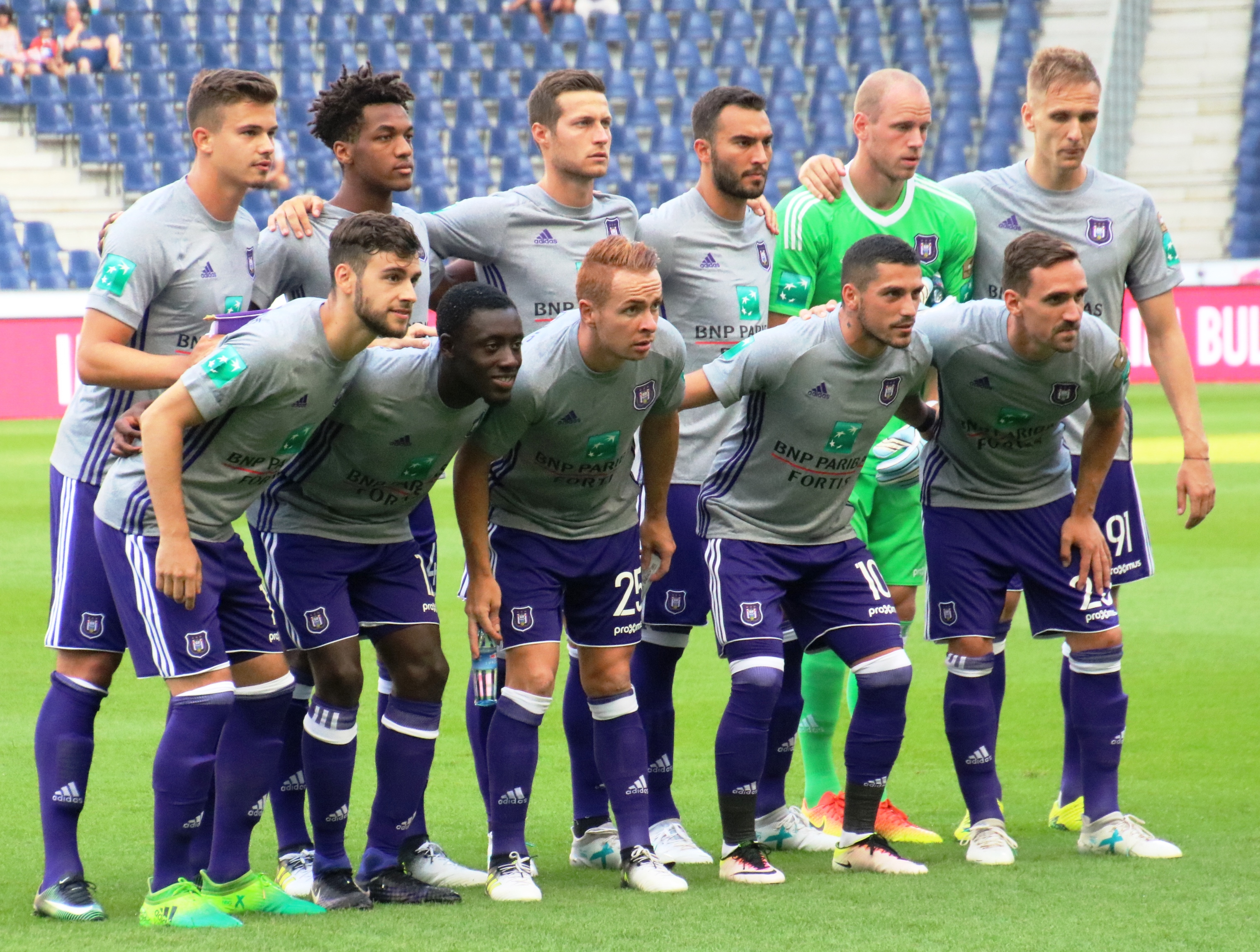 pre season match